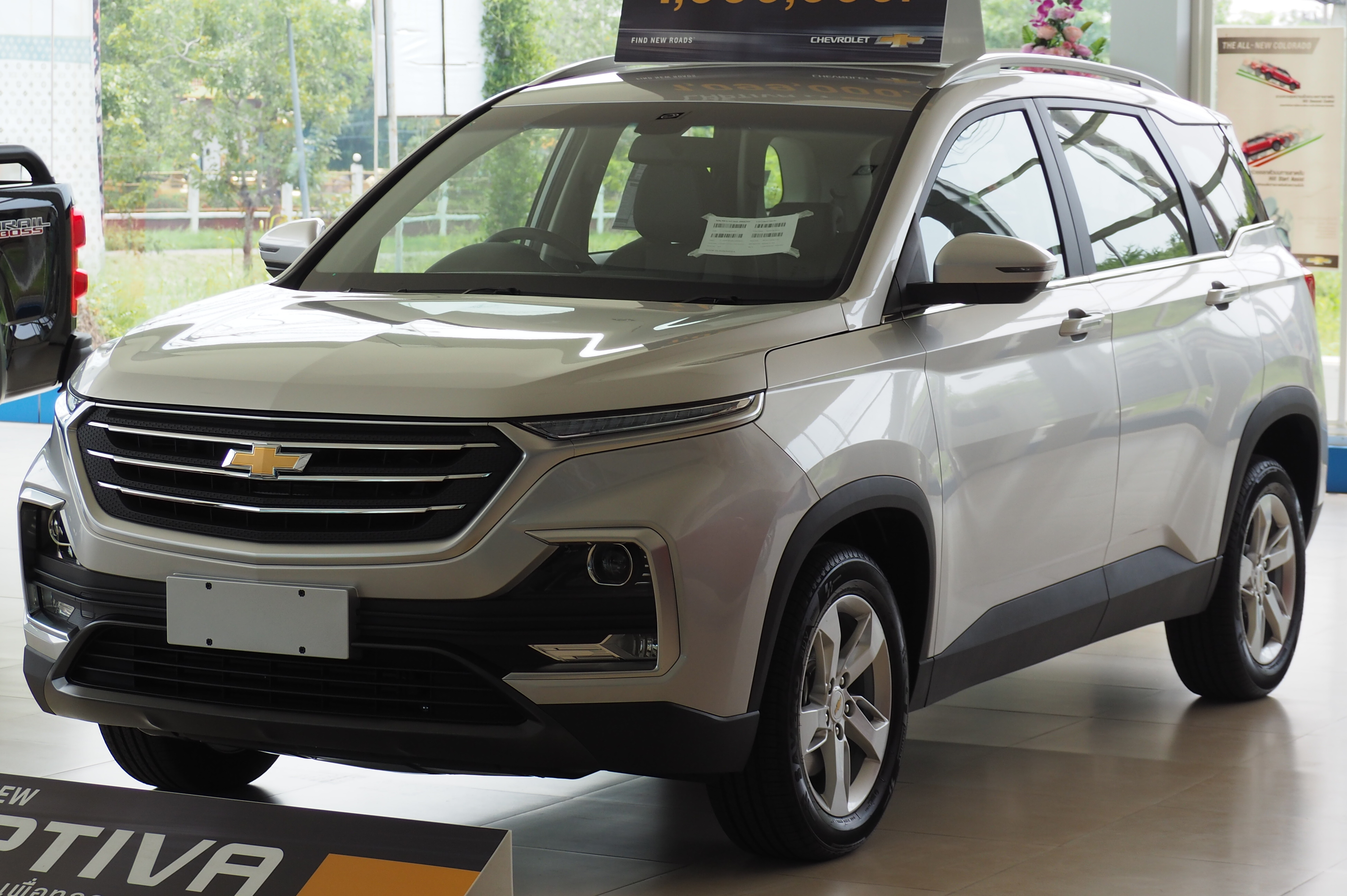 2019 Chevrolet Captiva LT in Chevrolet Khon Kaen Pijitphet, Khon Kaen, Thailand.